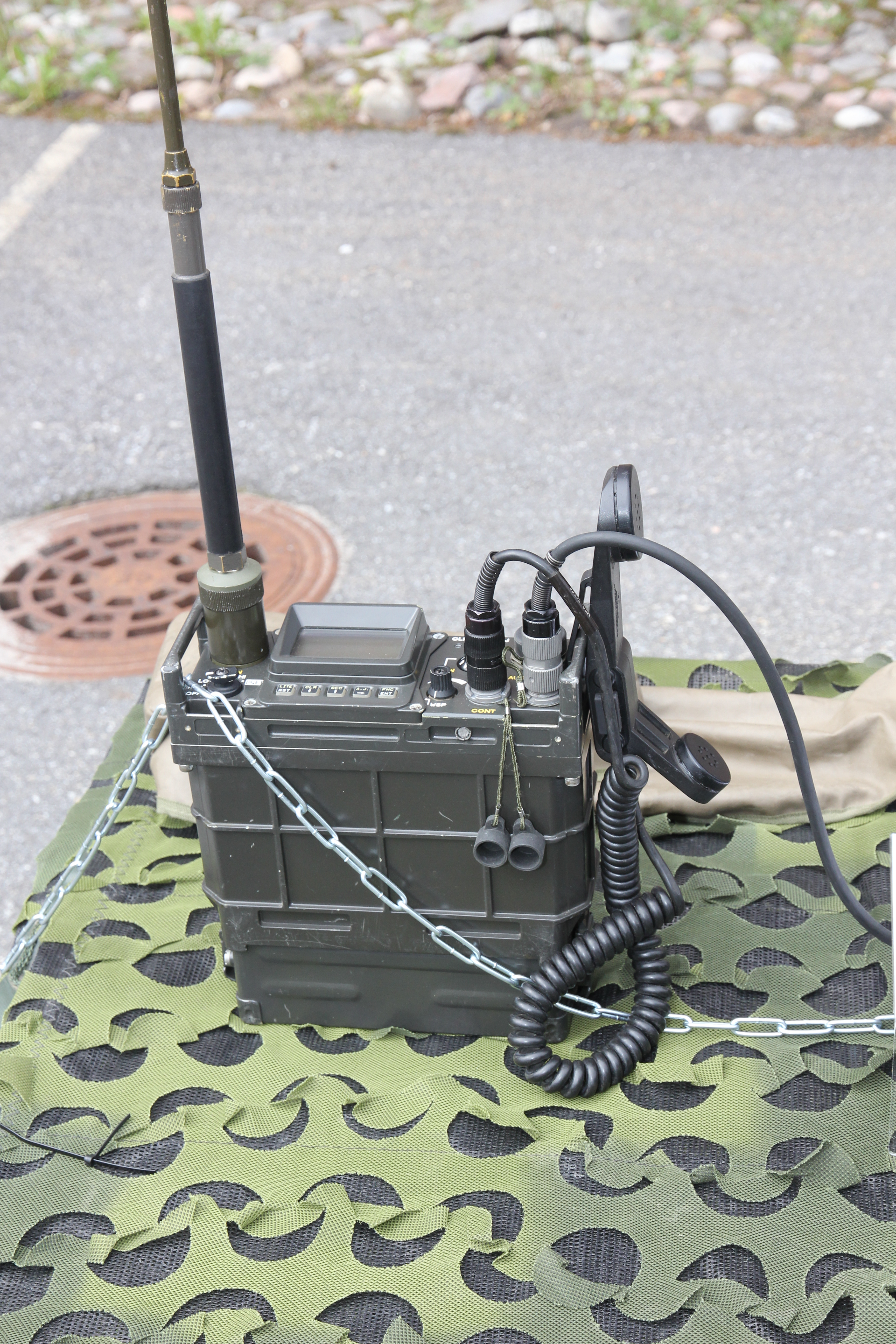 Tadiran digital field radio, Finnish designation LV 241 on display during Finnish Defence Forces 2014 Flag day in Lappeenranta Rakuunanmäki.